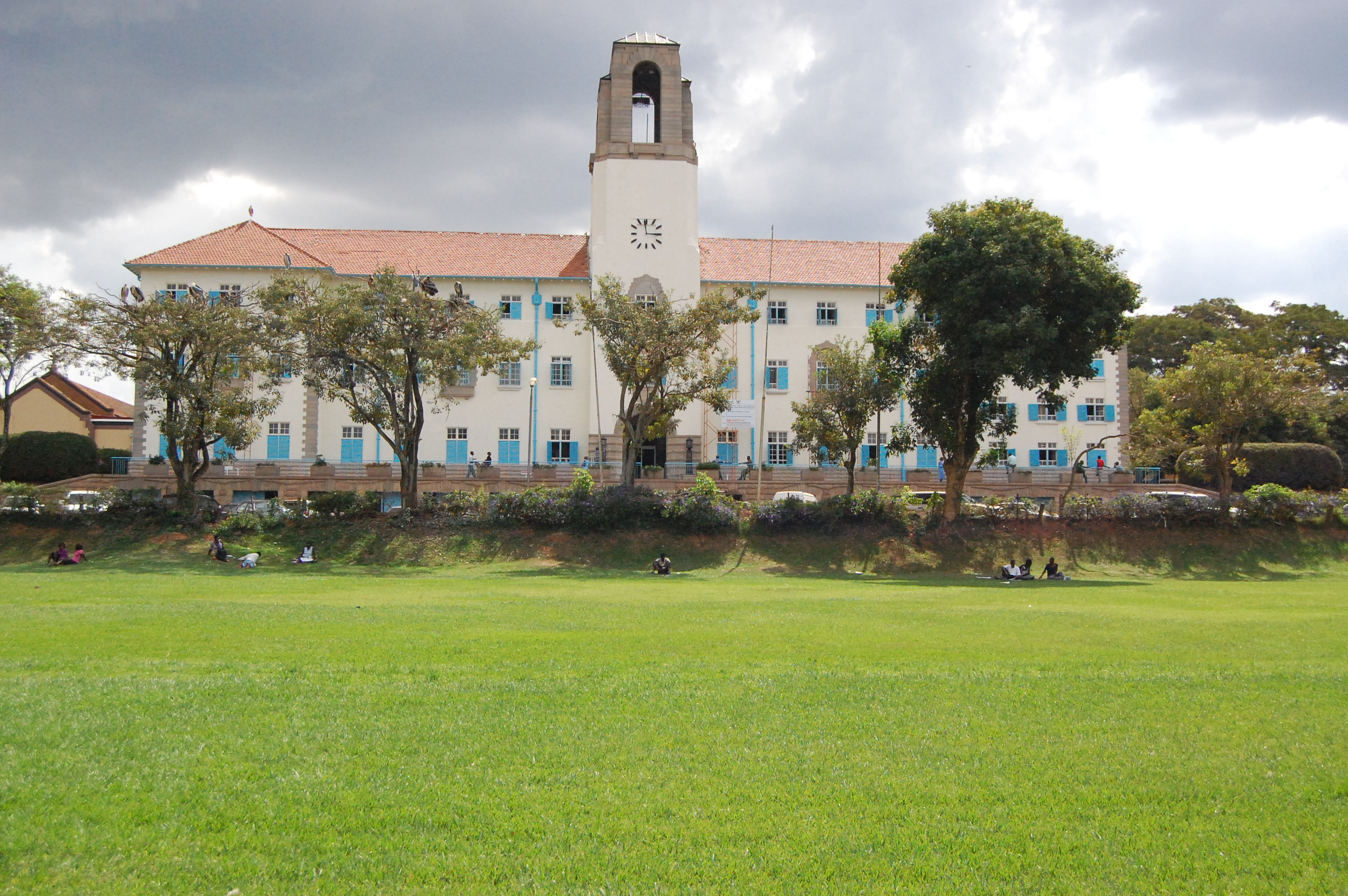 The main administration building of Makerere University, called the "Main Building." Located in central Kampala.